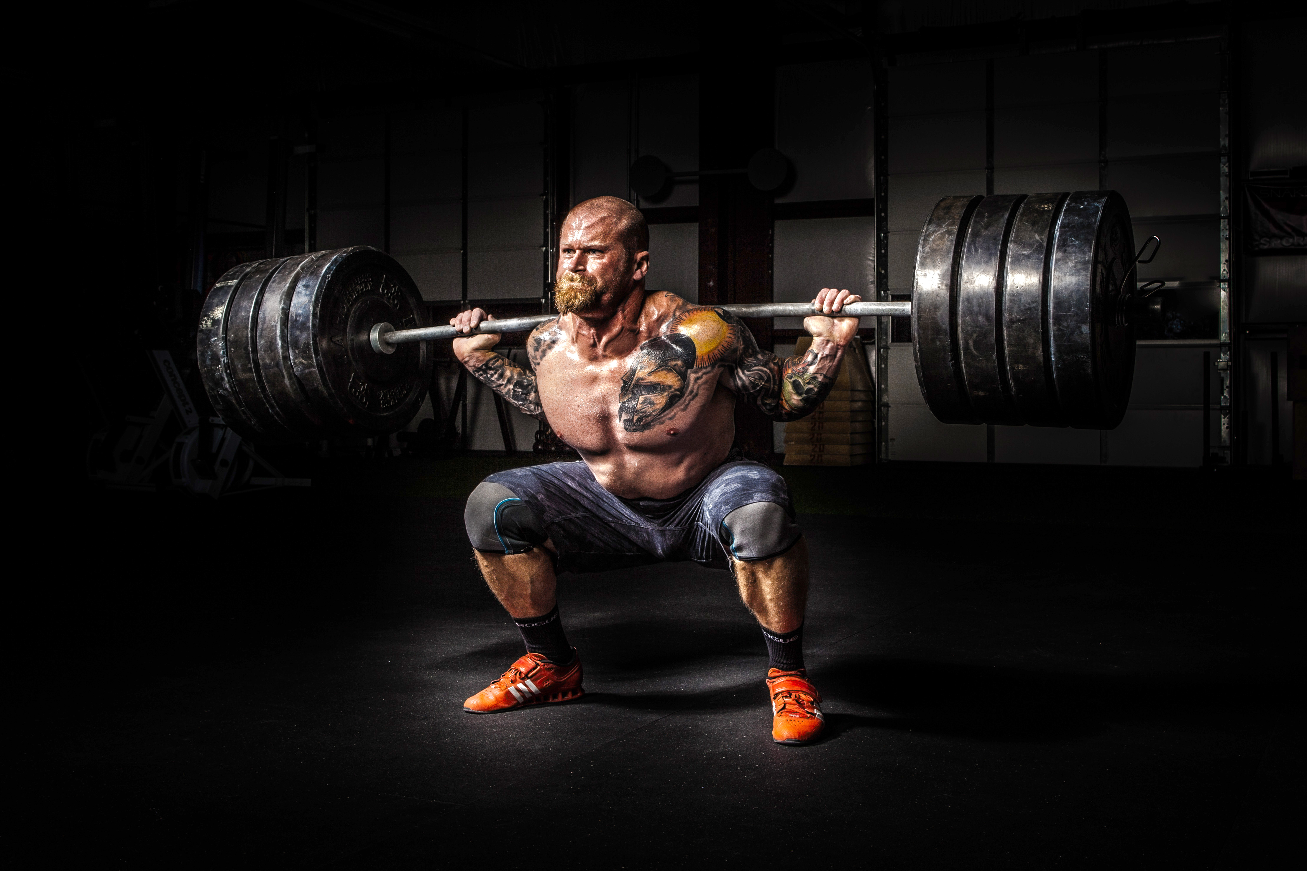 Men usually prefer to underline their strenght through a visual way, using yoga pants and not wearing shirts.